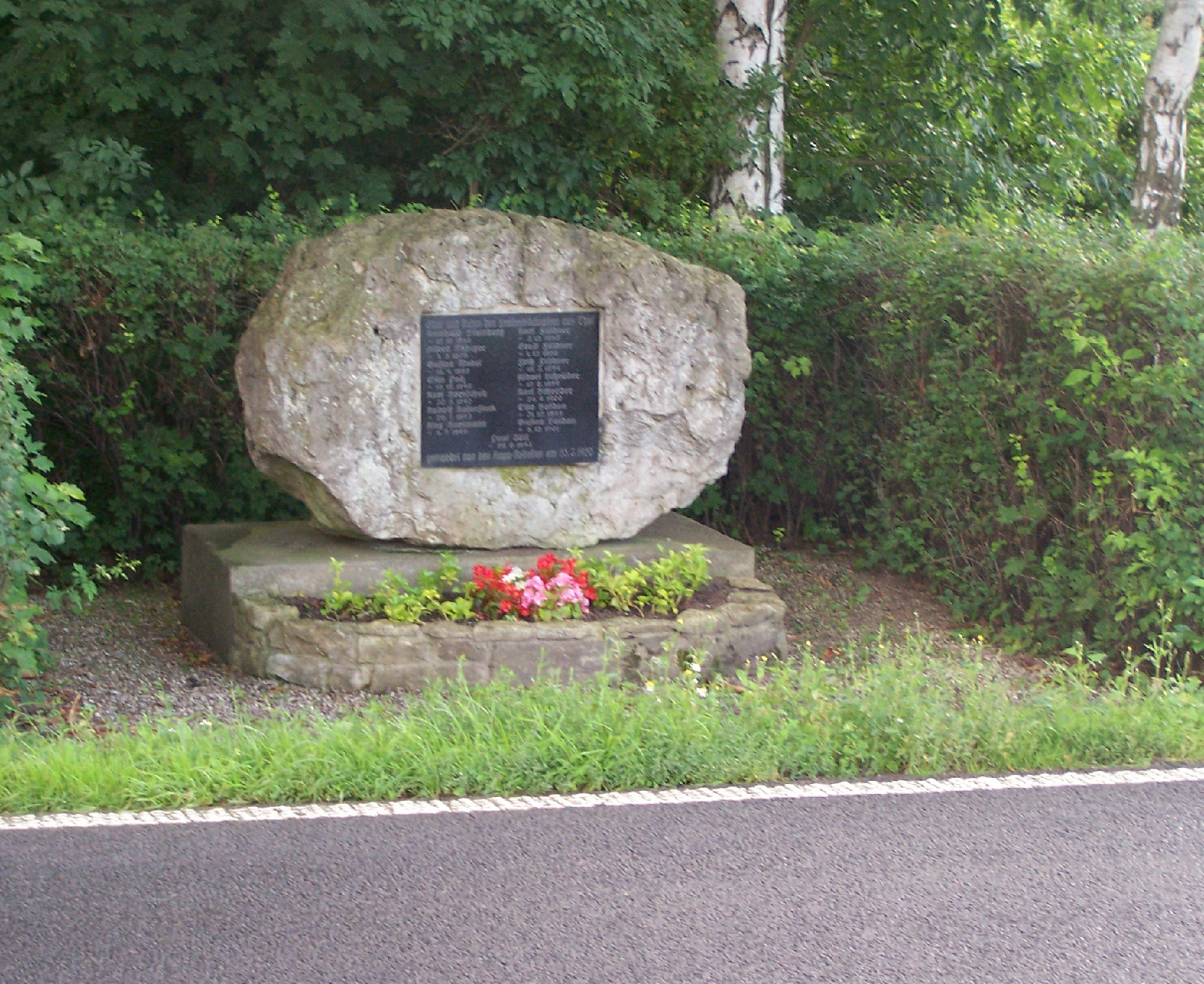 Memorial near Mechterstädt remembering the 15 working men murdered by corps students of Marburg on March 25, 1920.